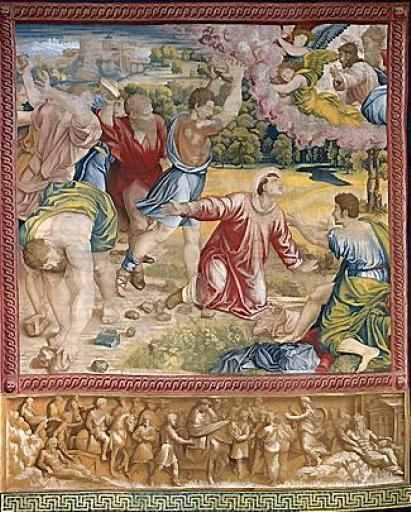 Raphael tapestry Tapestry Musei Vaticani, Rome